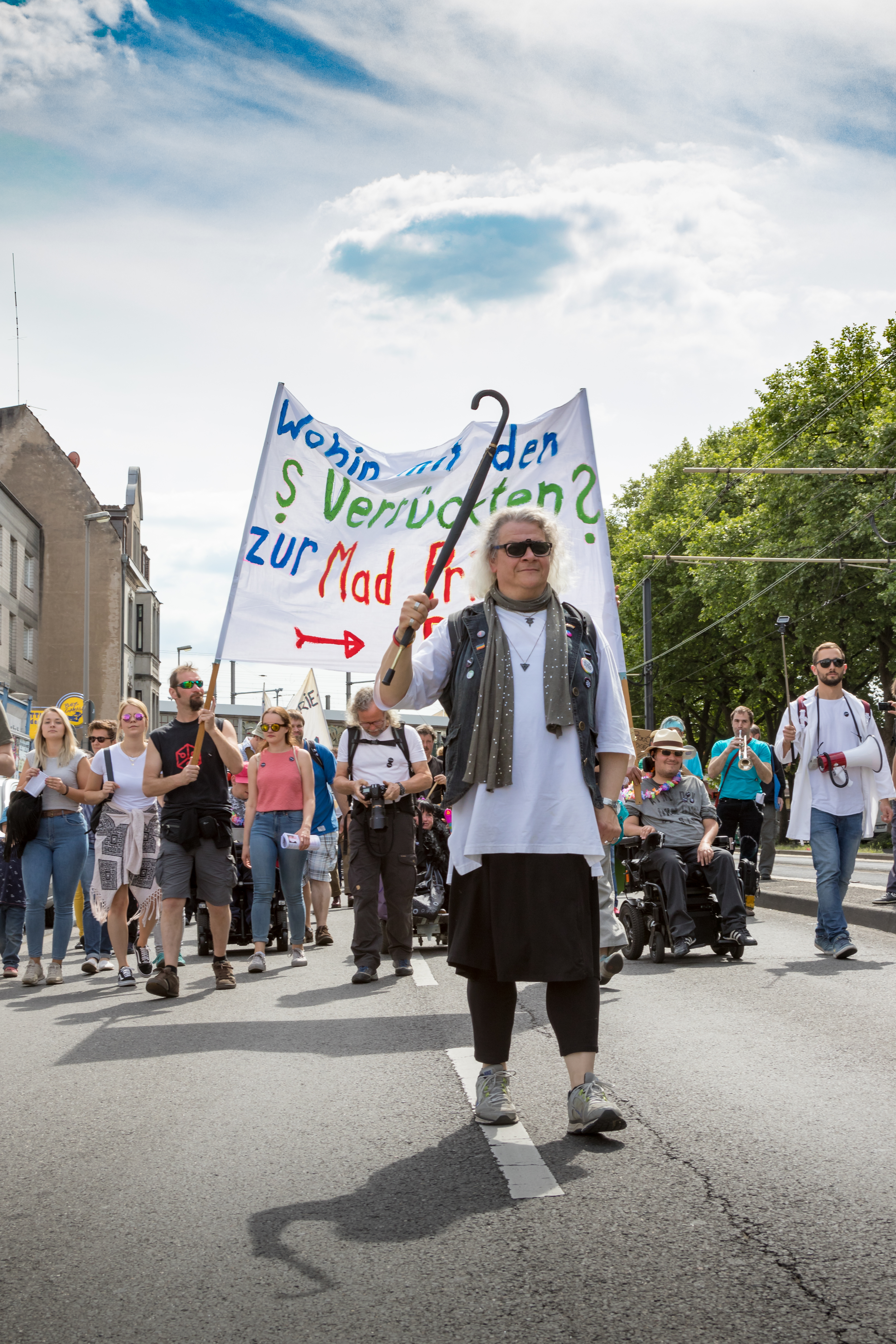 Mad PridecParade in Cologne, 2017